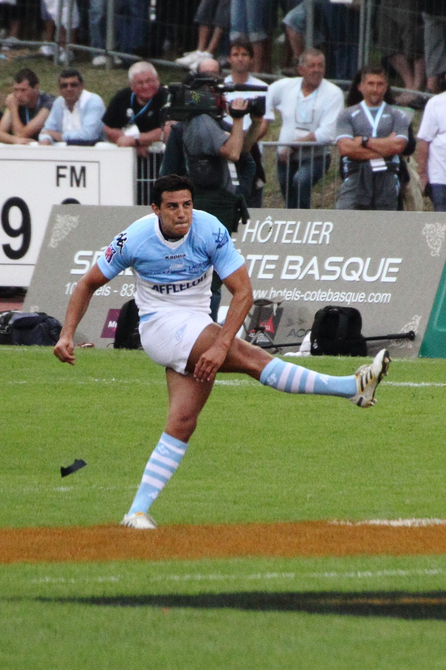 Benjamin Boyet Penality